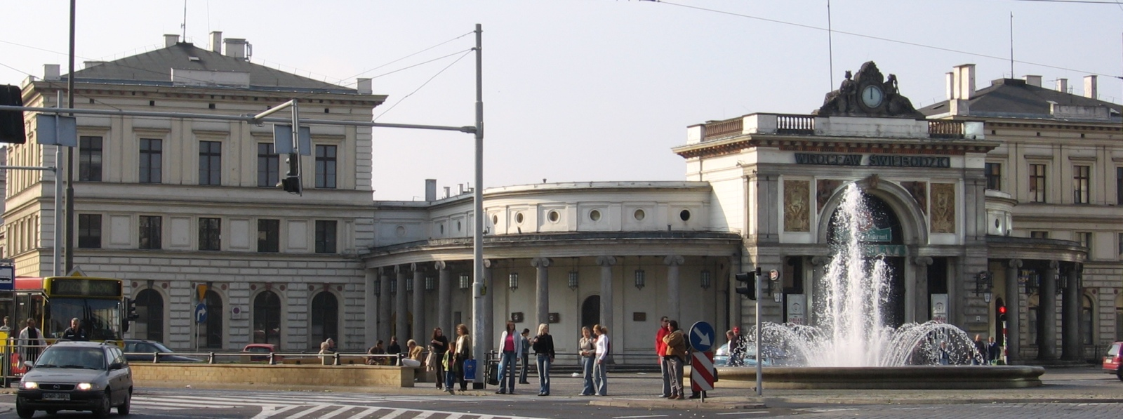 Wrocław, Poland - Świebodzki train station (train operation abandoned)